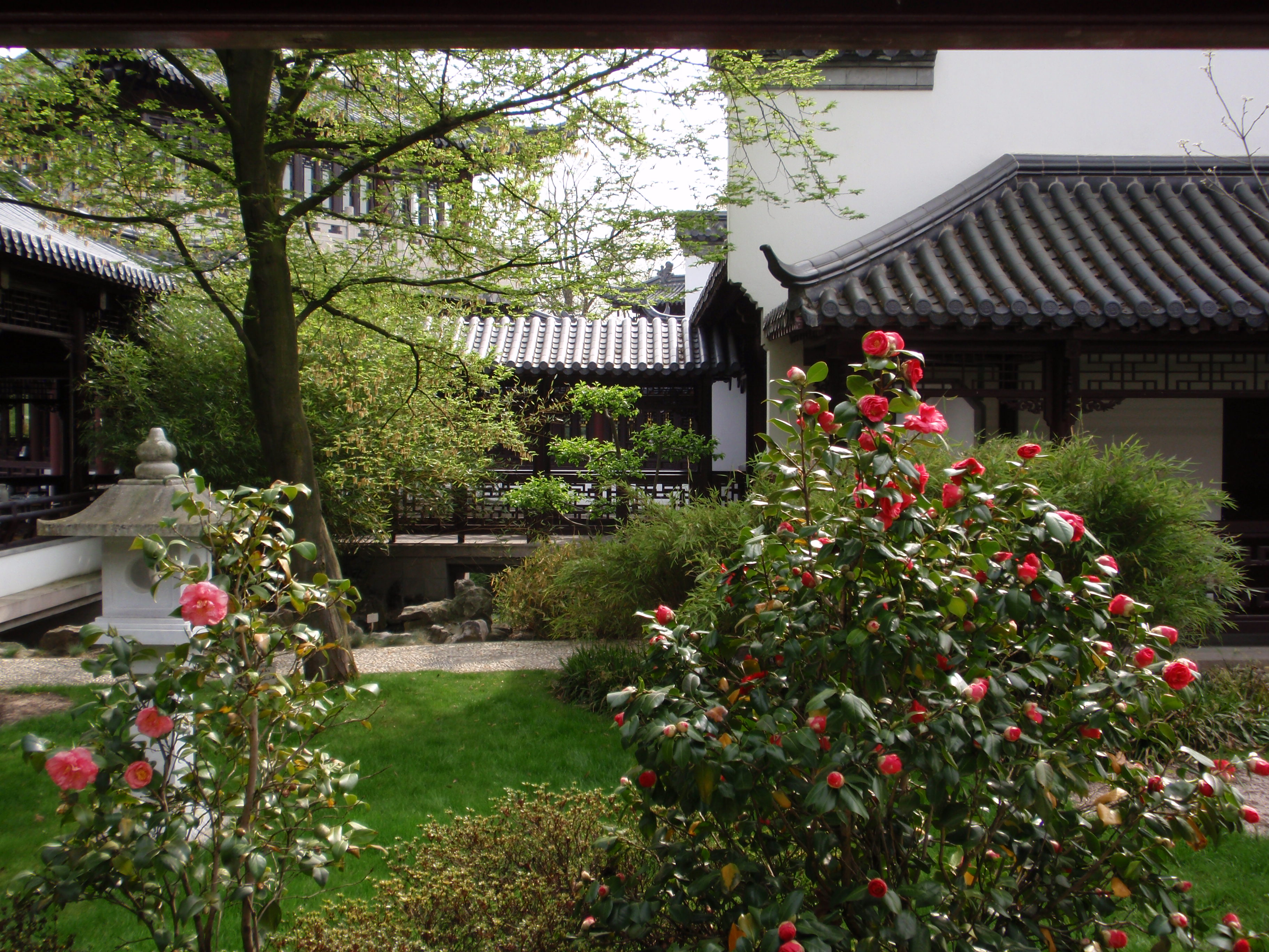 Garden view in the chinese tea-pavillion "Duojingyuan" ("garden of many views") in the Luisenpark Mannheim (Germany)